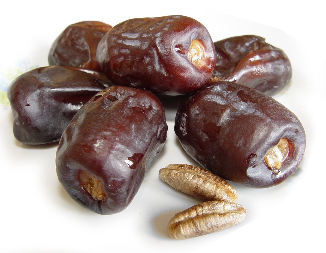 Dates